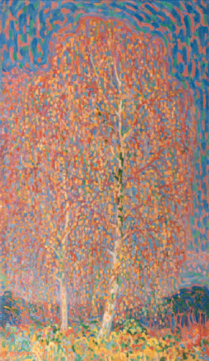 Herfstdag te Nijmegen. Signed and dated Leo Gestel-1909, and signed and dated again and inscribed with title on the reverse. Oil on canvas, 85 x 50 cm